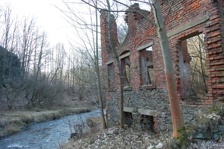 Ruins of the mill "lohmuehle" near Hainichen